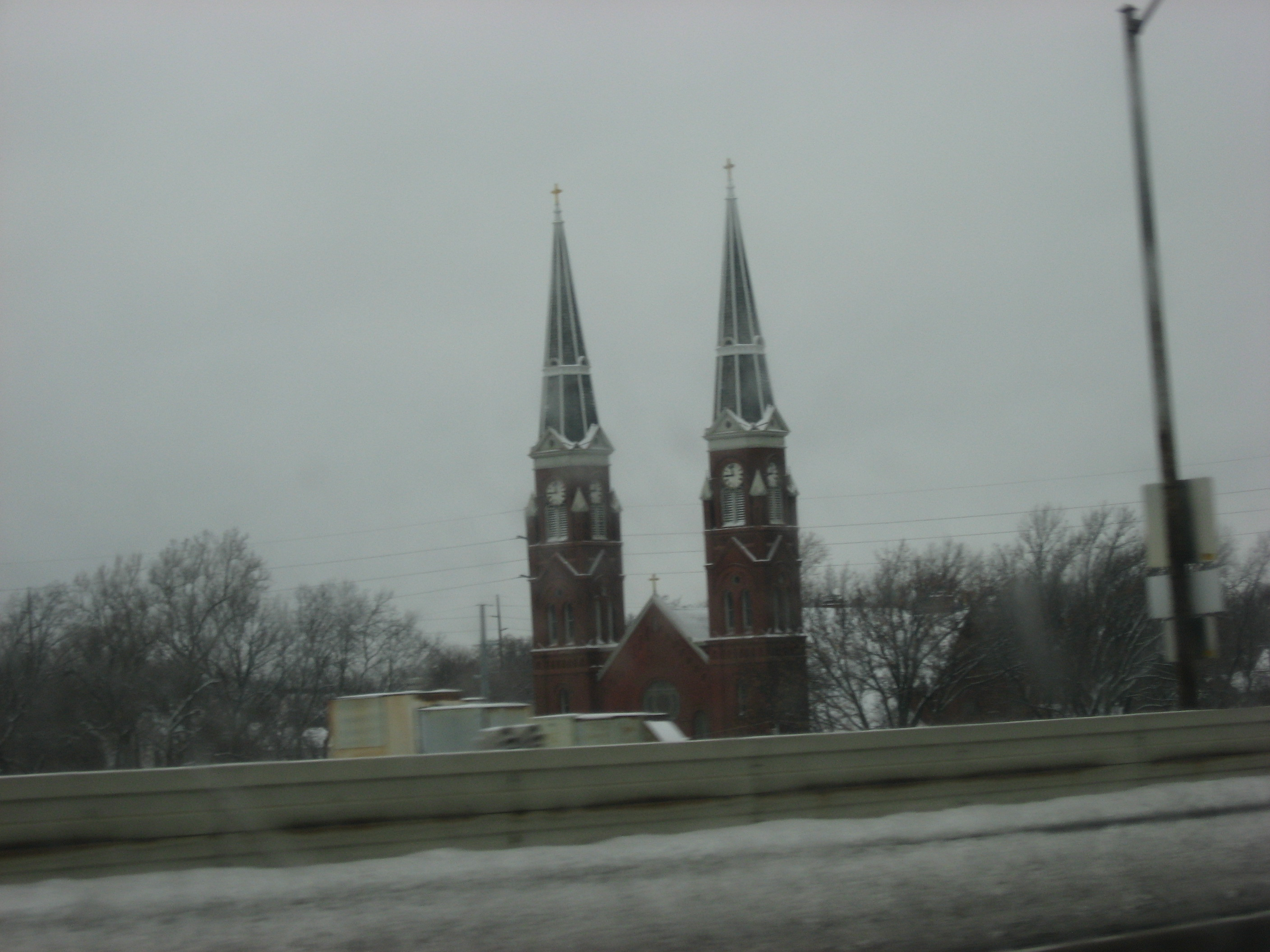 Towers of St. Joseph's Catholic Church, located at 235 Van Buren Street in Topeka, Kansas, United States, as seen from Interstate 70. Built in 1901, it is listed on the National Register of Historic Places.